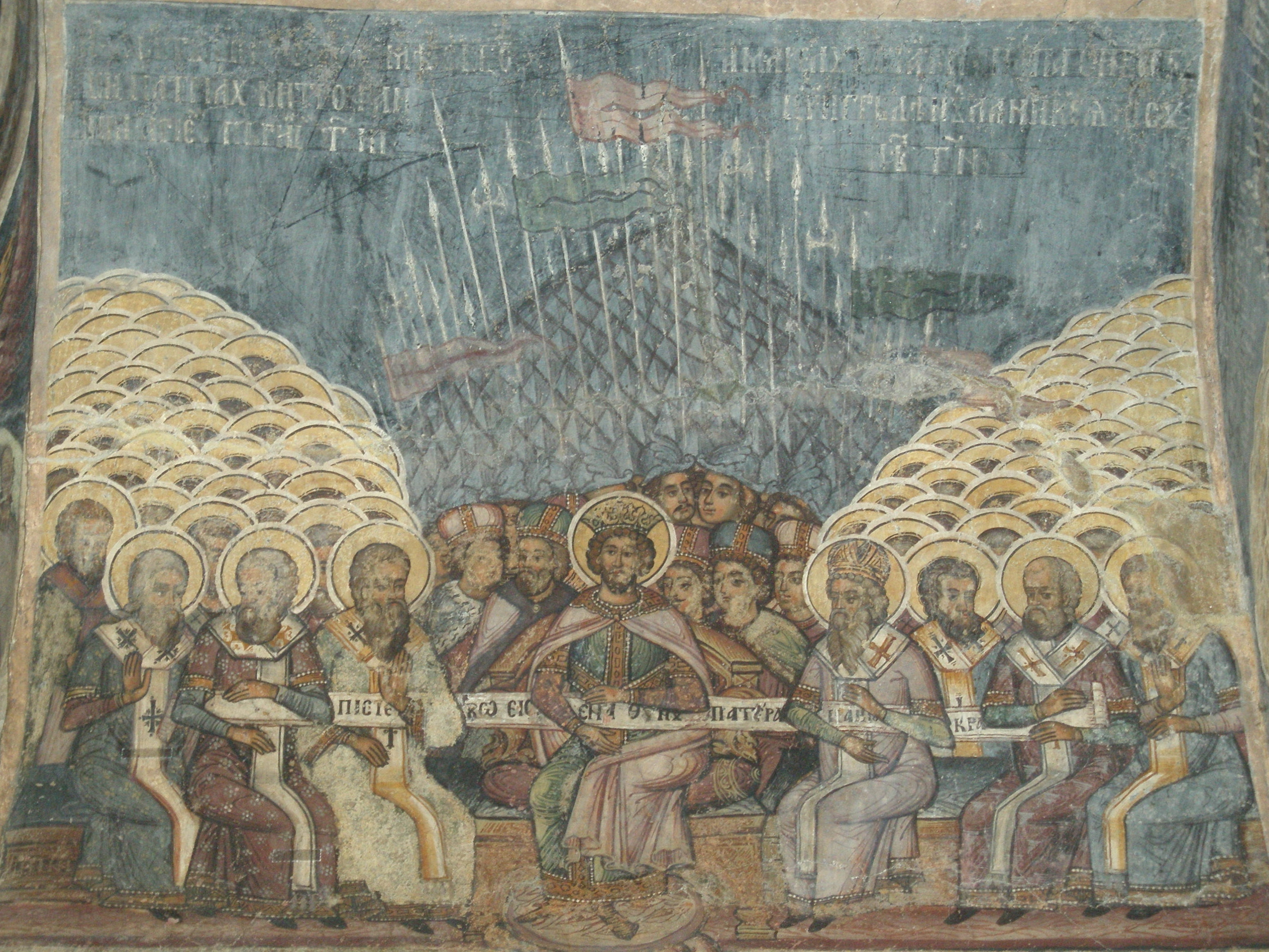 The First Council of Nicea, wall painting at the church of Stavropoleos, Bucharest, Romania